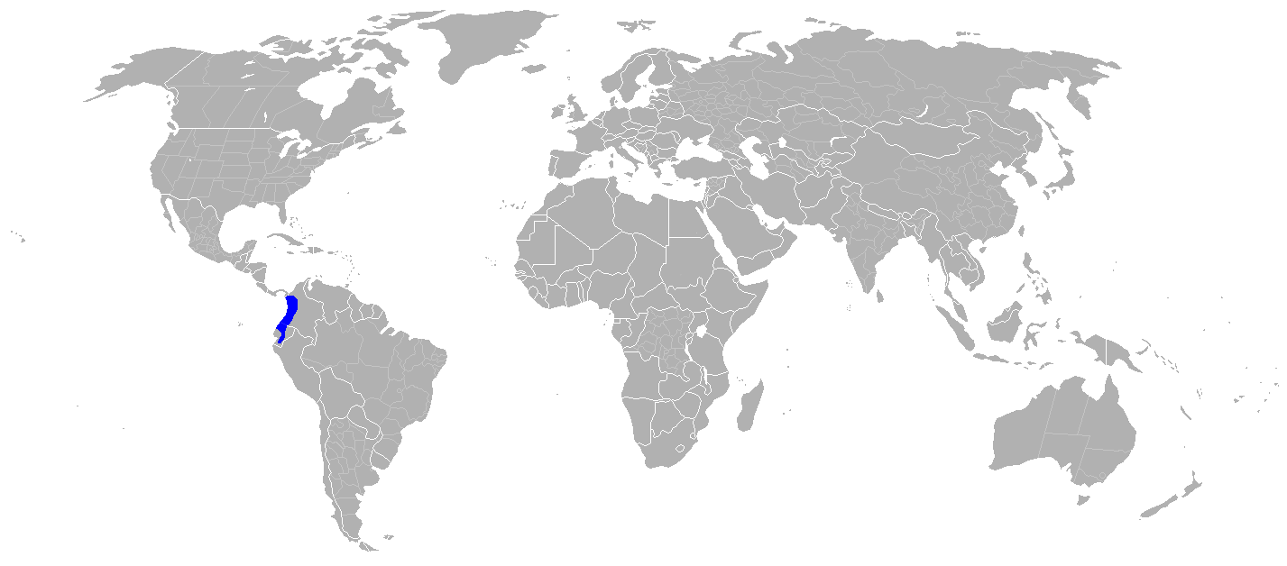 Estimated range of Ramphastos brevis in blue.